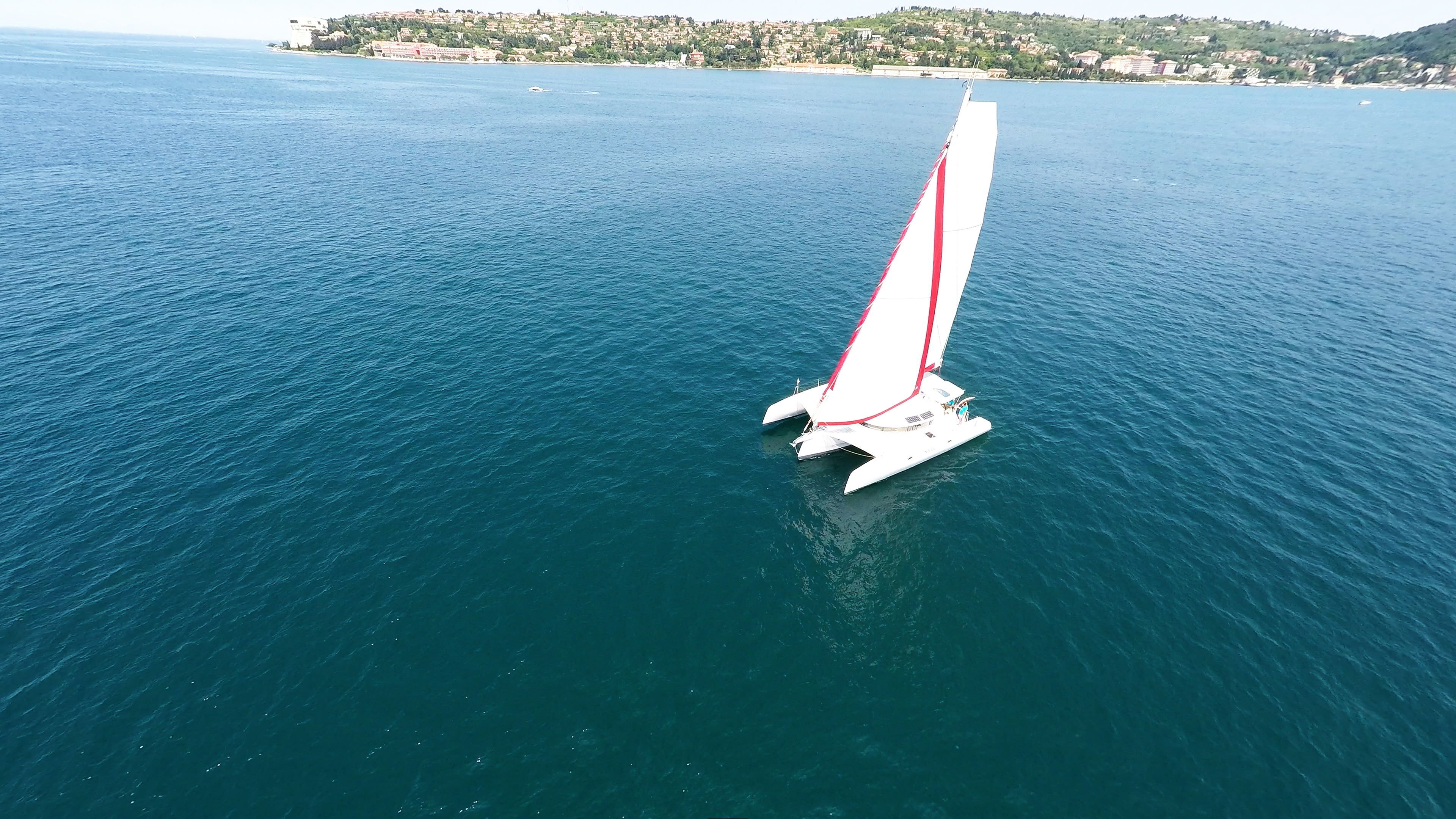 Free to use this photo as long as you include photo credit with a clickable (hyperlinked) and do-follow link to: - from pages in Croatian or - from pages in German or - from pages in Italian or from pages in English and other languages